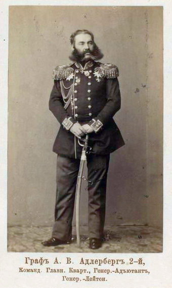 Alexandr Adlerberg